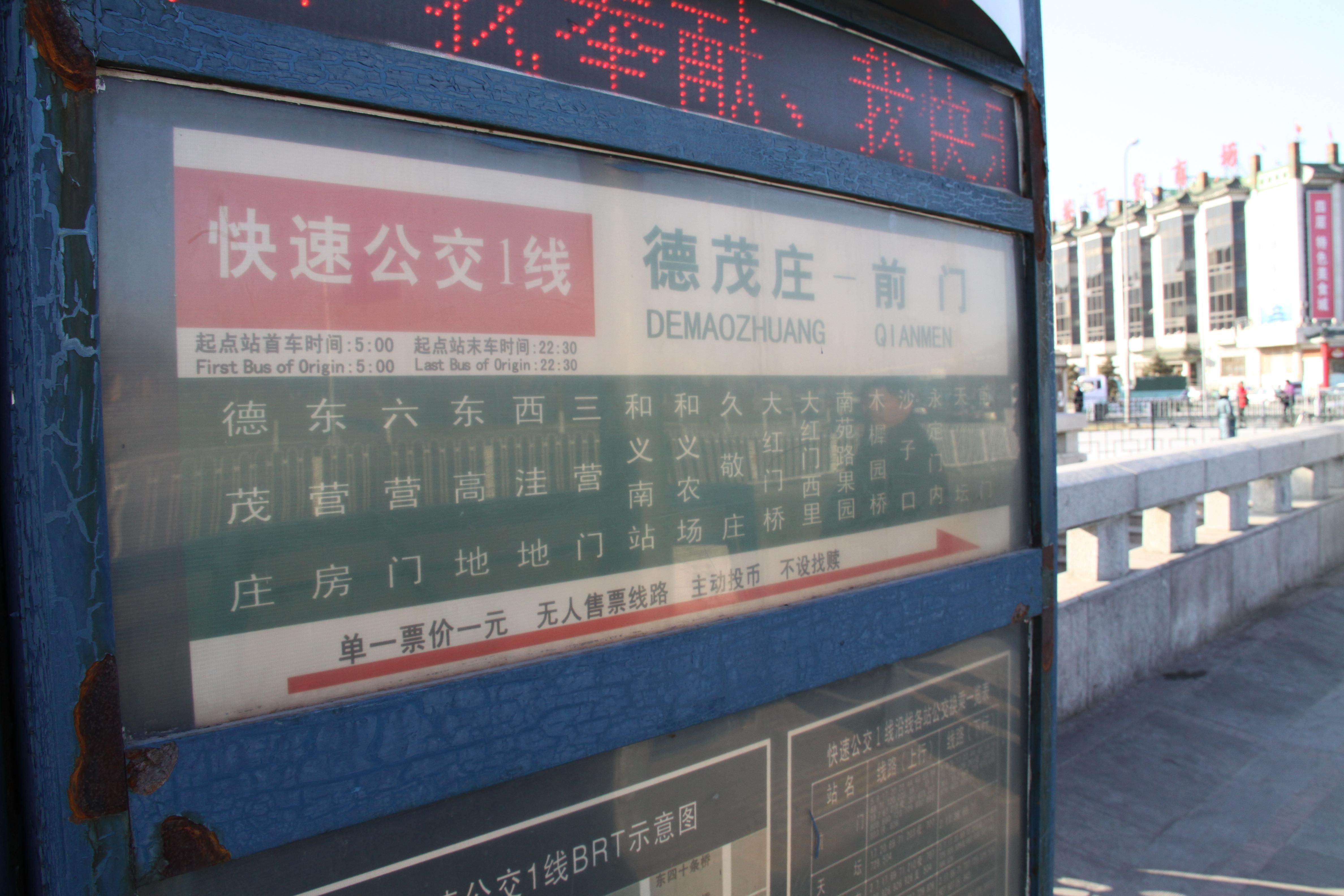 The bus stop sign of Beijing BRT Line 1